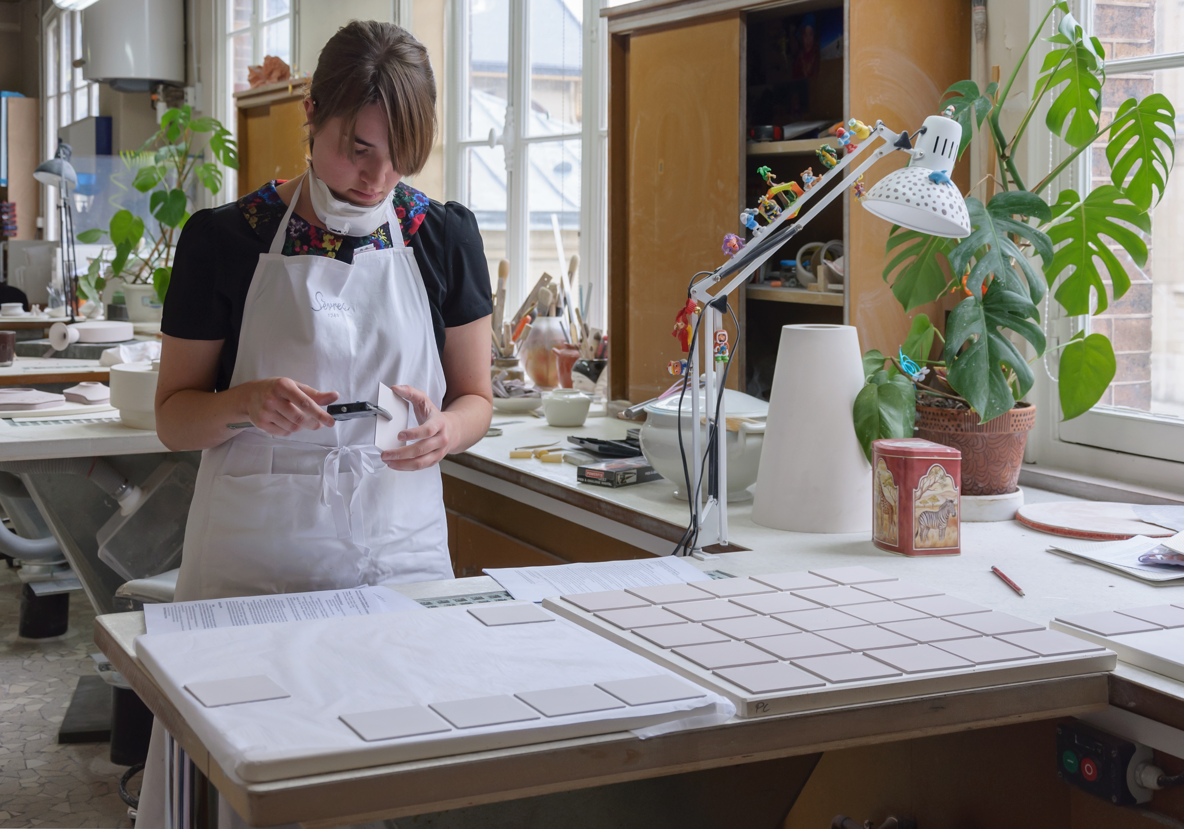 Small-scale casting (slipcasting) workshop of the manufacture nationale de Sèvres. Touching up after drying.